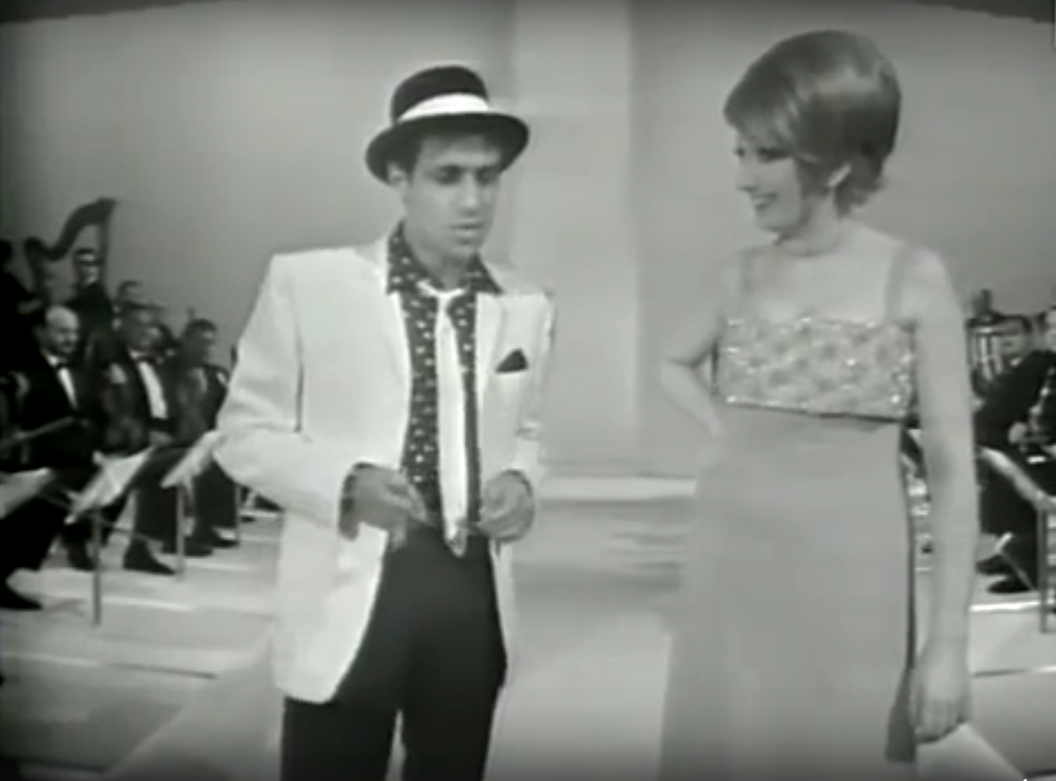 TV show Sabato Sera 1960